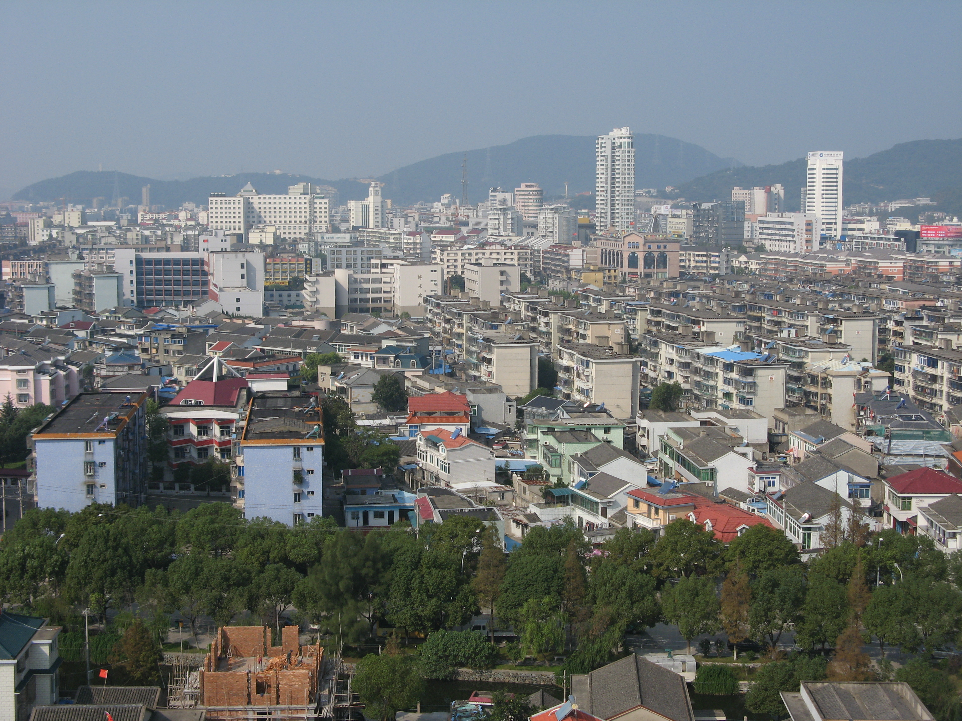 A picture taken atop of Xiaoqi Building